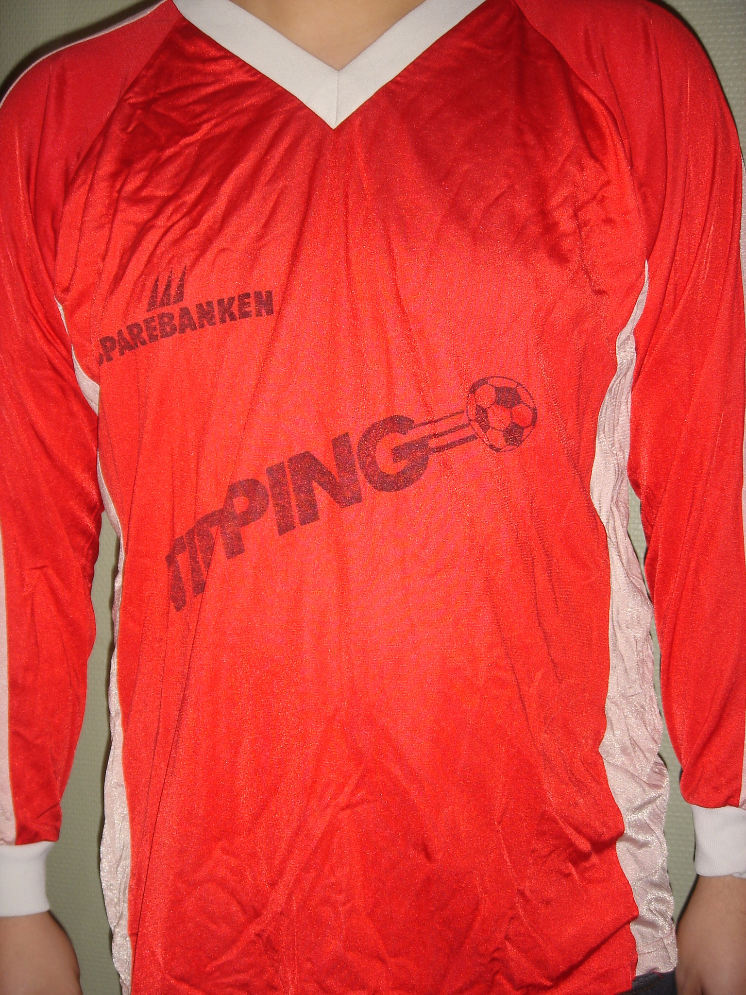 Footballshirt from Gaular IL, Sogn og Fjordane, Norway. This set of shirts hasn't been in use since the late 90s.